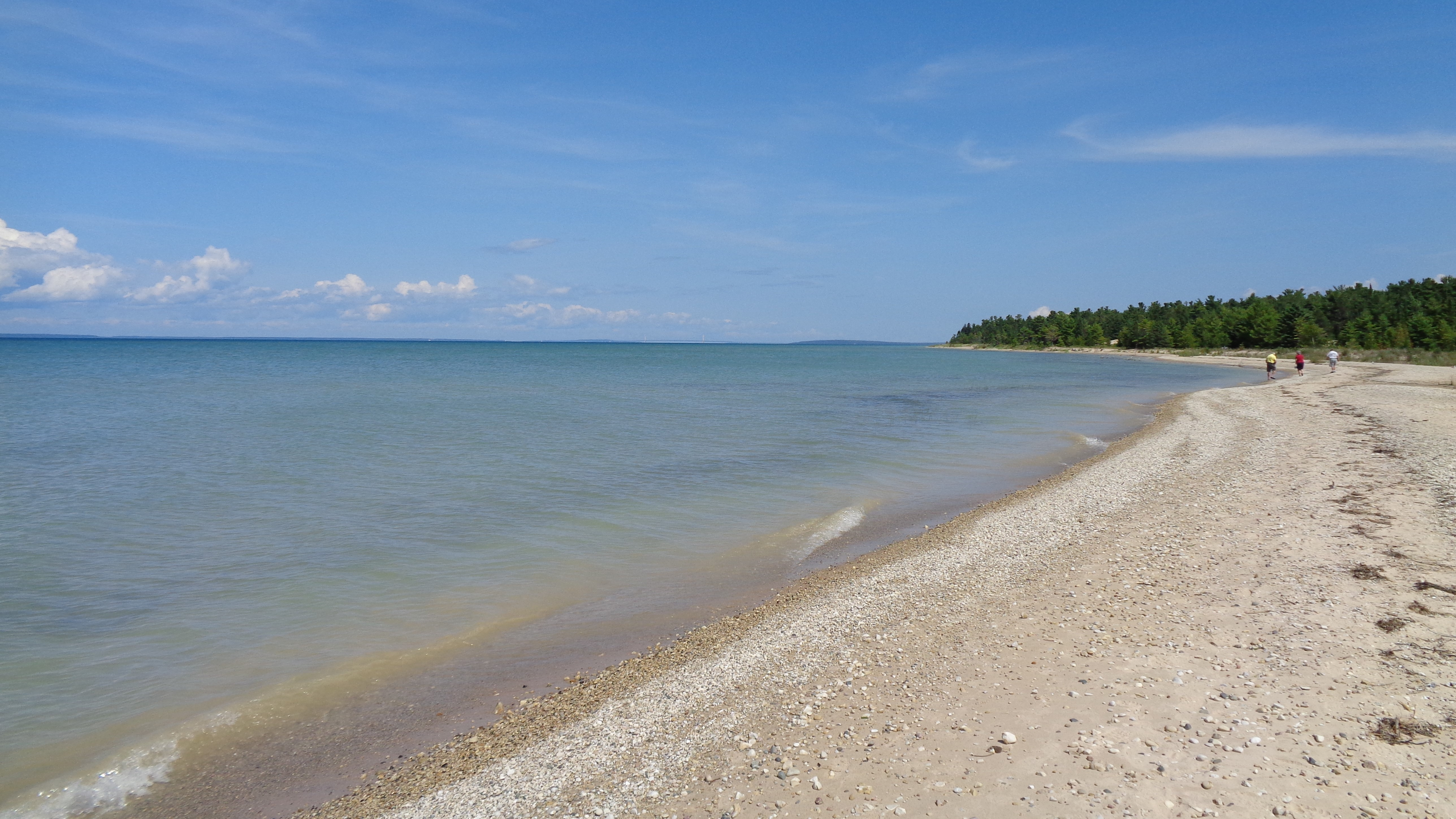 Depicted place: Wilderness State Park